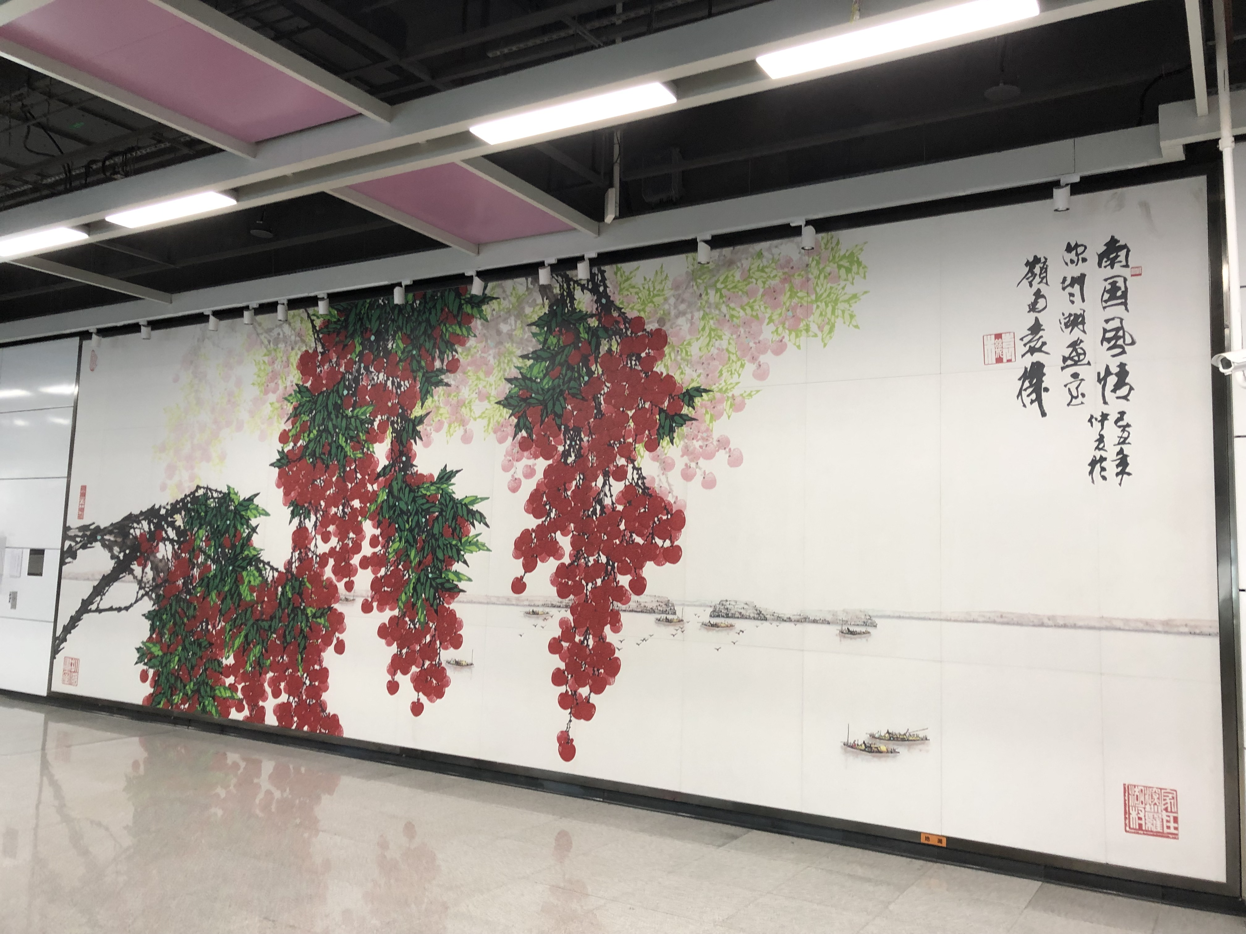 Shenzhen Metro Line 9 Renminnan Zhanting